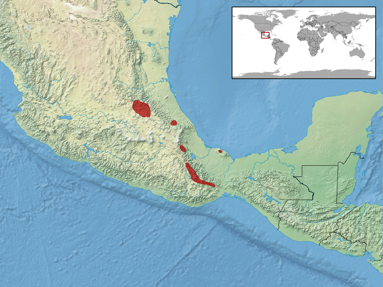 geographic distribution of Scincella gemmingeri